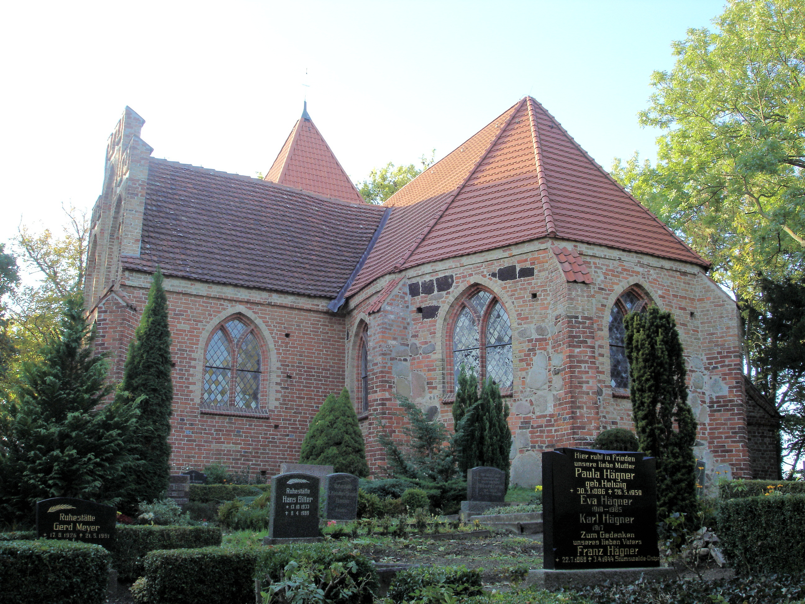 Church in Westenbrügge, Mecklenburg, Germany